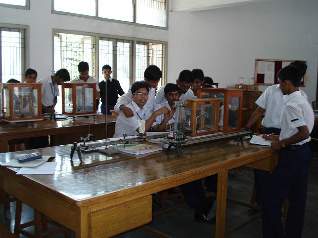 Students of Udayan in physics lab